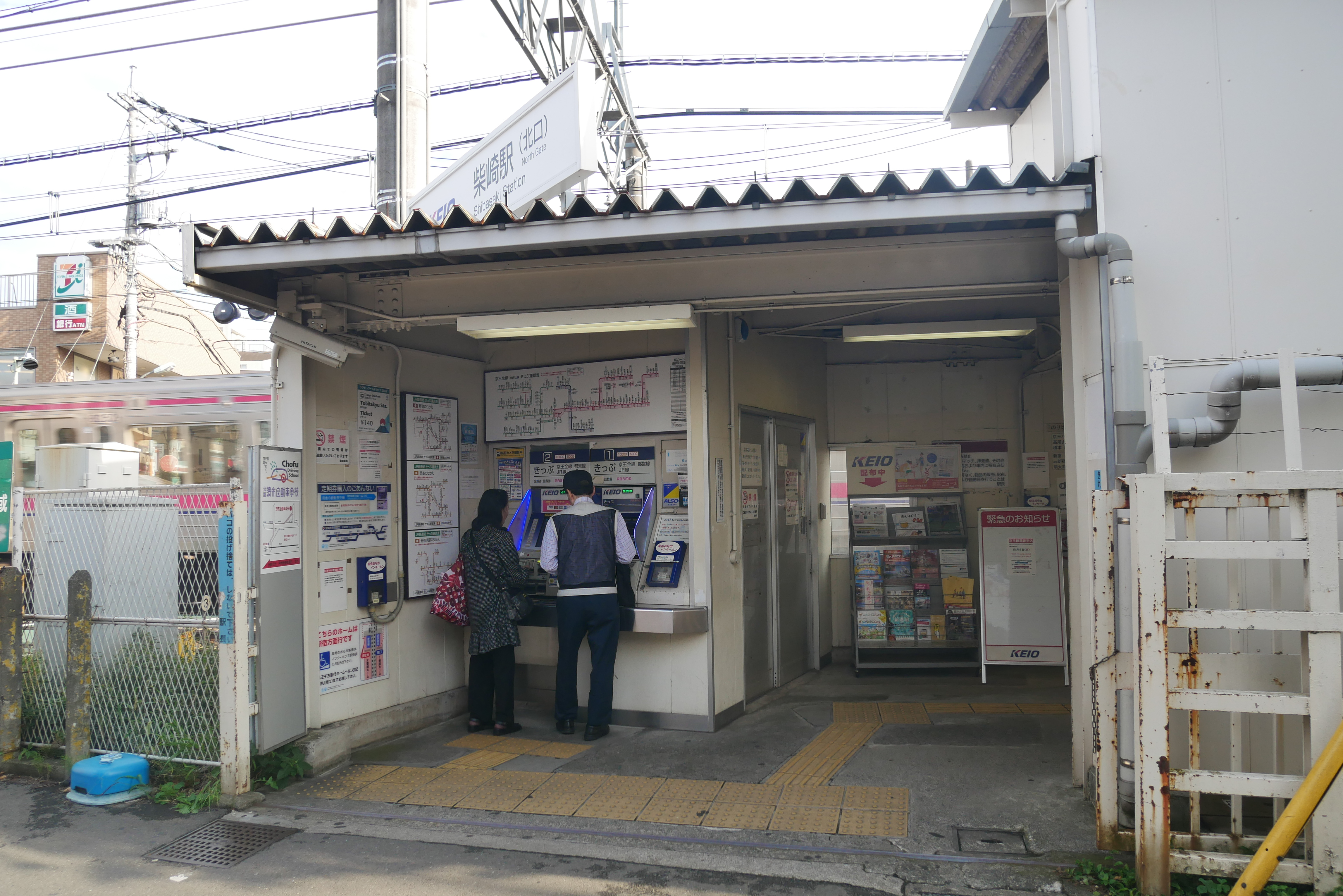 Shibasaki Station north exit (柴崎駅の北口)